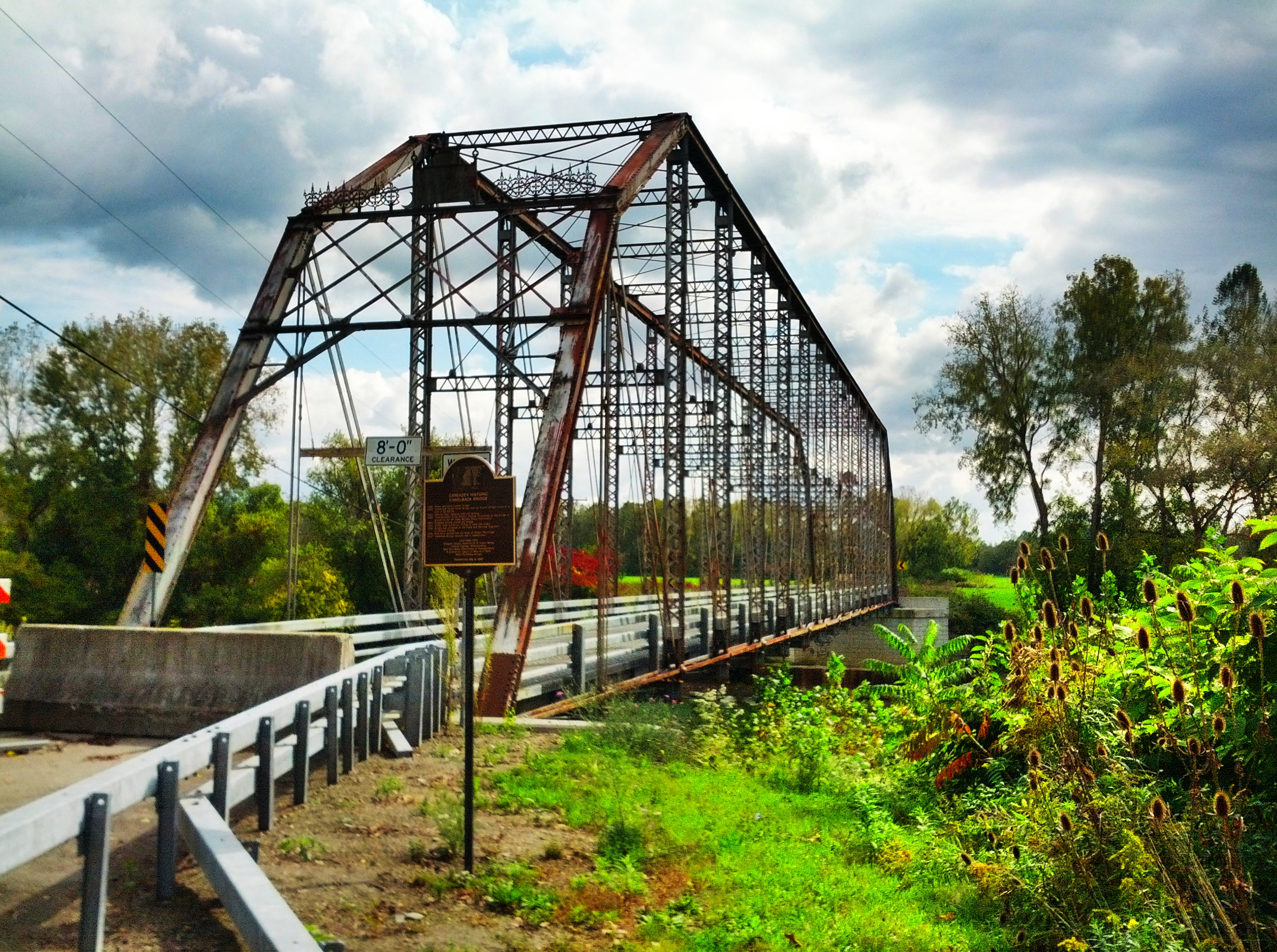 Caneadea Bridge